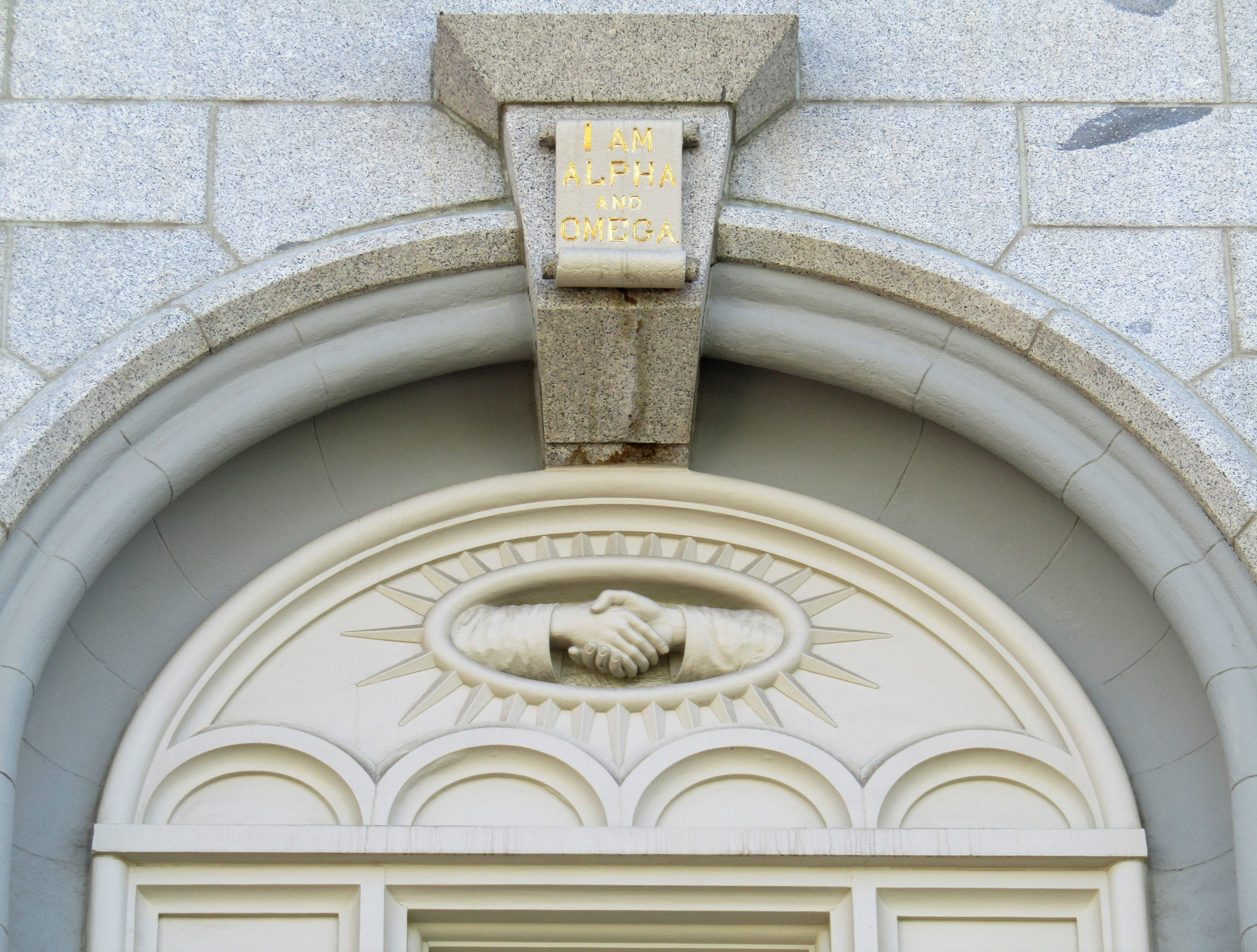 Scrool with the word "I Am Alpha and Omega" and the handclasp symbol (see Galatians 2:9) on the Salt Lake Temple.